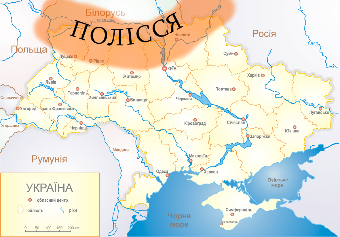 Polesia filled with orange.